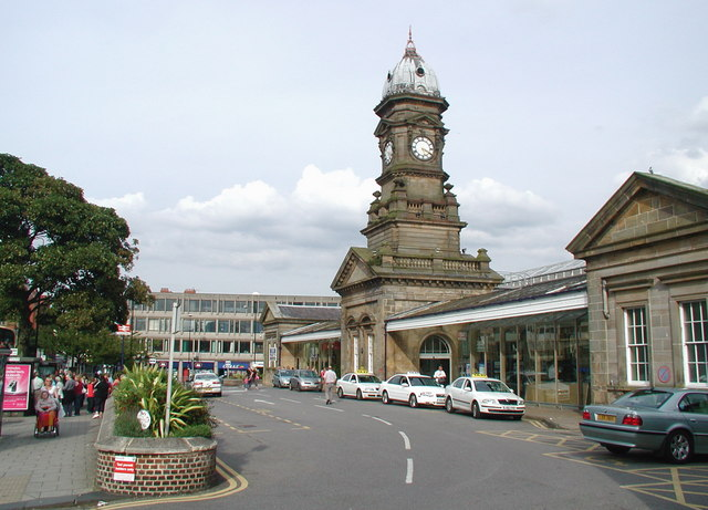 Scarborough Station Looking east-northeast towards the main entrance to the railway station on Westborough.